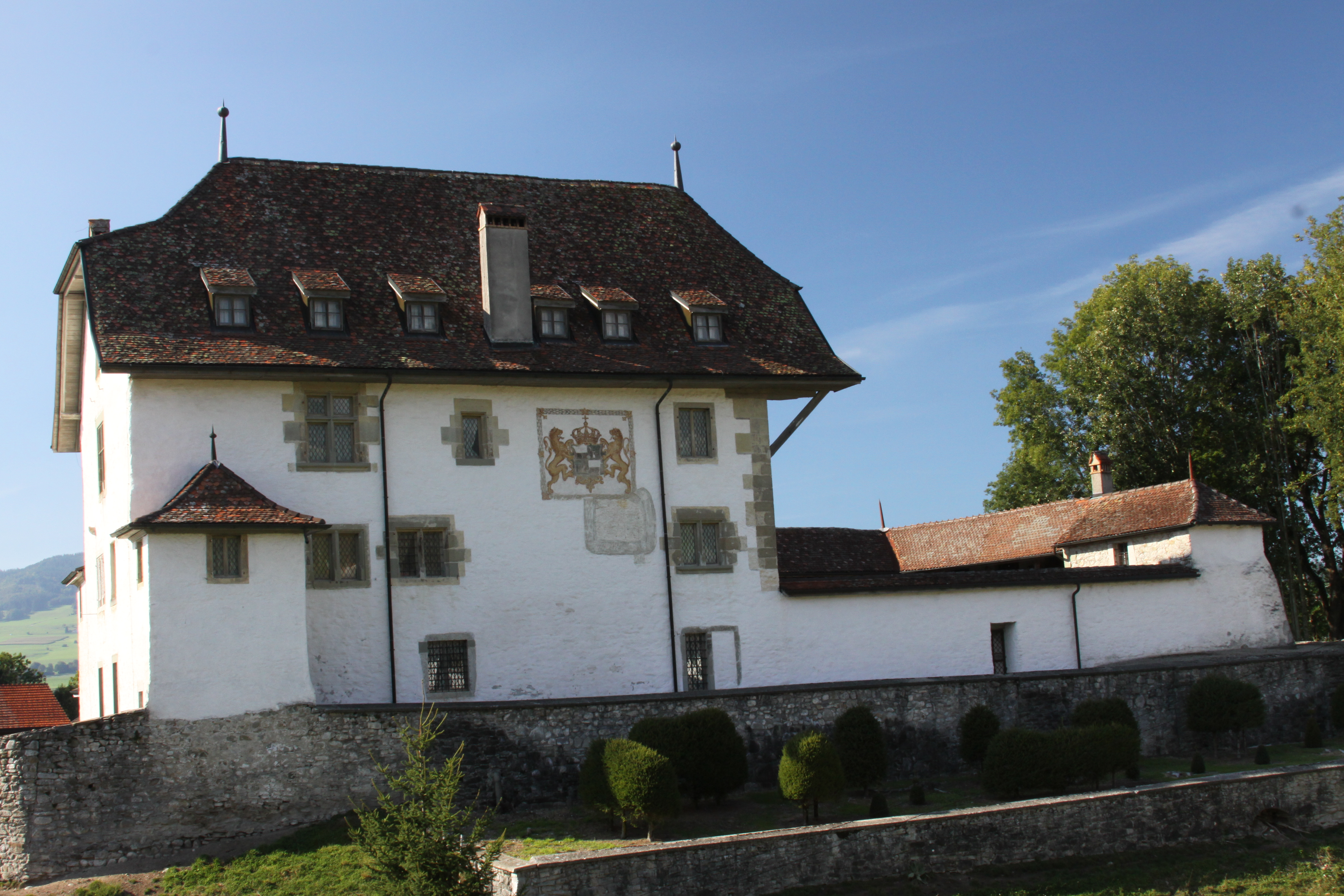 Governor's Castle, Impasse de la Ville 5, Corbières